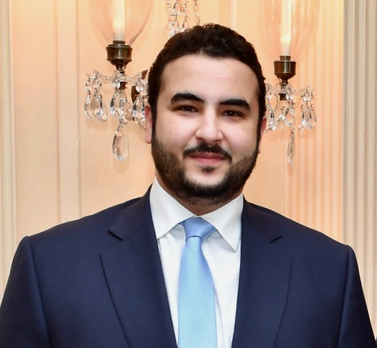 U.S. Secretary of State Michael R. Pompeo meets with Saudi Arabian Deputy Defense Minister Prince Khalid bin Salman at the U.S. Department of State in Washington, D.C., on March 28, 2019. [State Department photo by Michael Gross/ Public Domain]